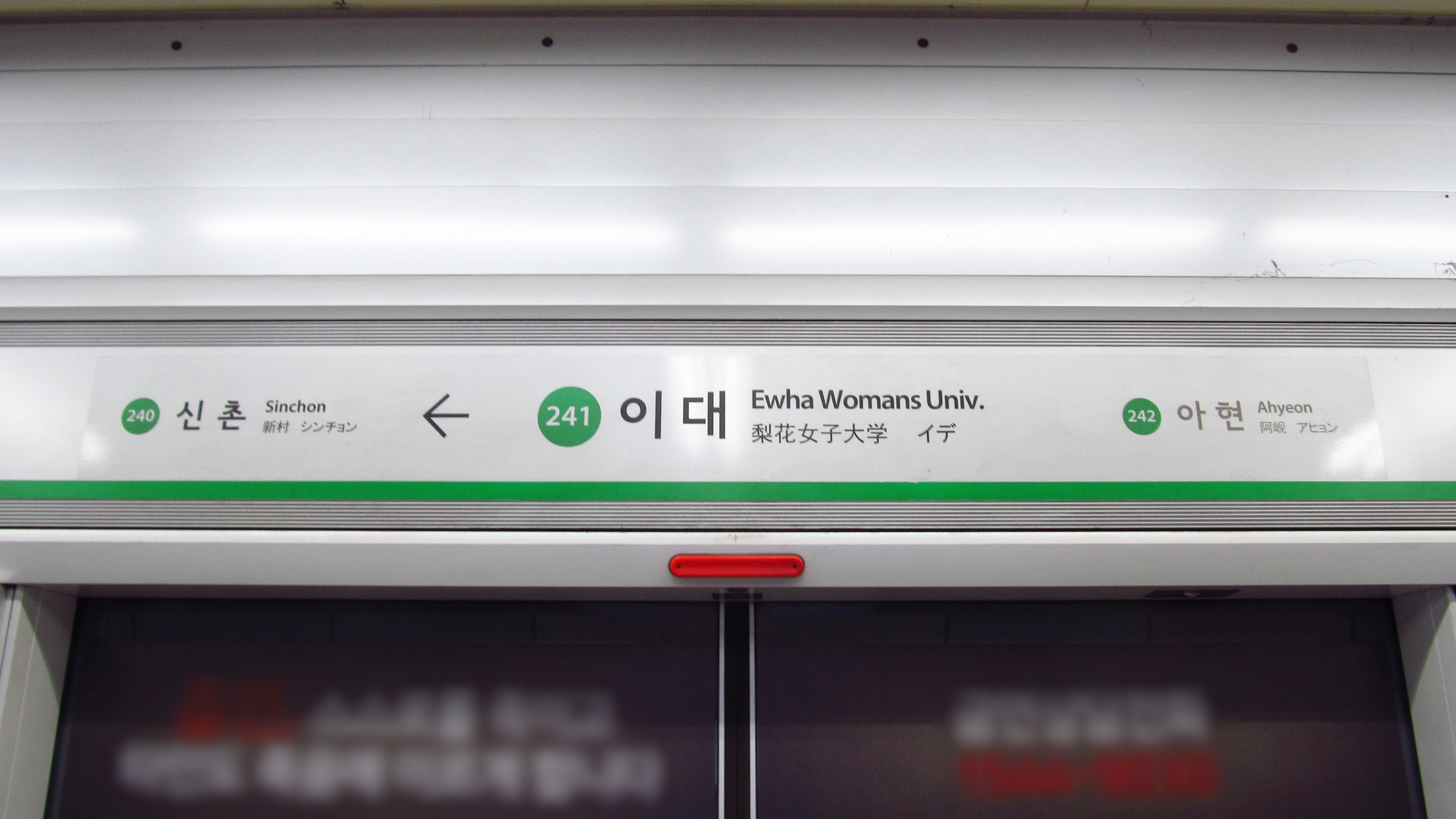 A sign of Ewha Womans University Station on Seoul Subway Line 2